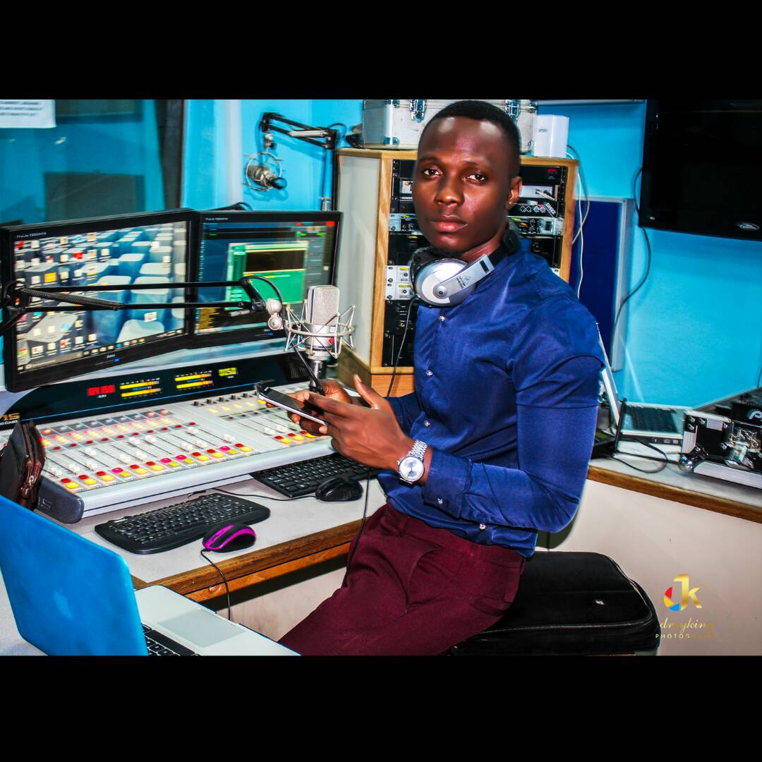 Tisan in the studio